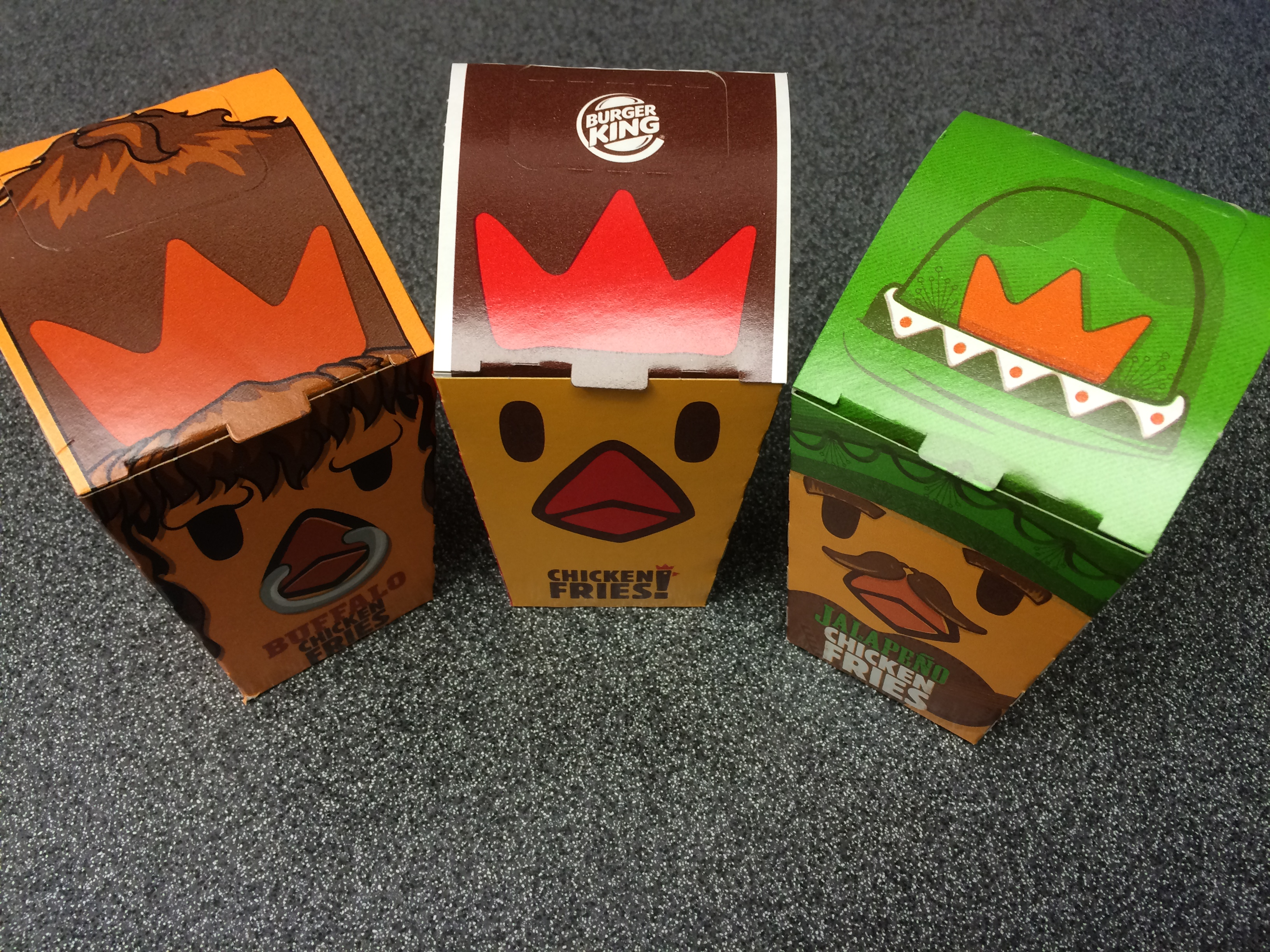 Three varieties of Burger King chicken fries — Buffalo, regular and jalapeño.